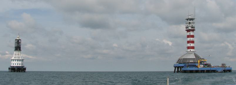 The two (new) One Fathom Bank Lighthouses, as seen off the coast of Selangor in the Strait of Malacca, Malaysia, depicting their close proximity with each other. The "old" lighthouse (left) is situated some 500 metres from the "new" lighthouse (right). Cropped version of source photograph.